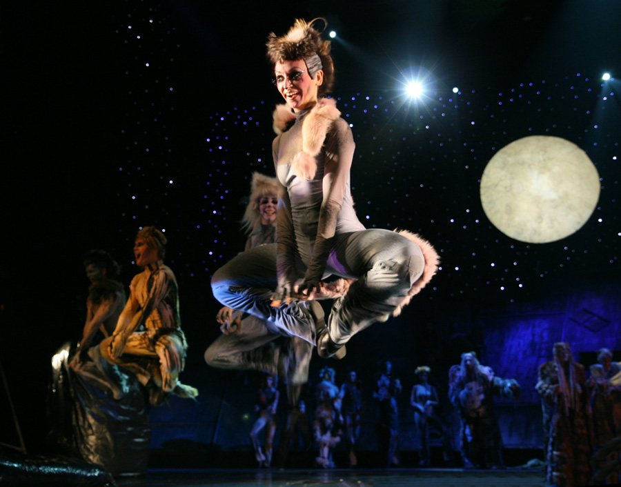 Anna Dębowska as Fraszka in the musical "Cats" in Roma Musical Theatre in Warsaw, 30 September 2007.